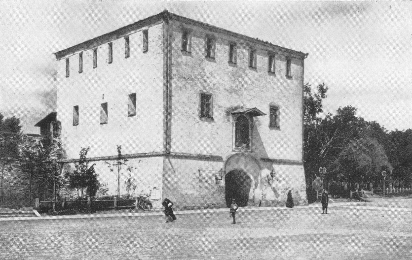 Dmitrovskaya Tower of Nizhny Novgorod Kremlin in the end of 19 Sentury